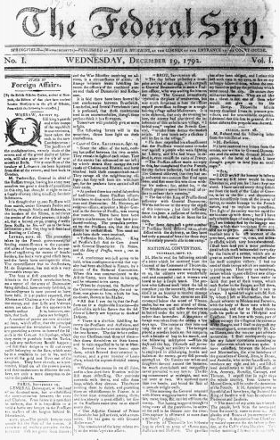 Federal Spy; Date: 12-19-1792 (Springfield, Massachusetts) Further information: American Antiquarian Society. Catalog.